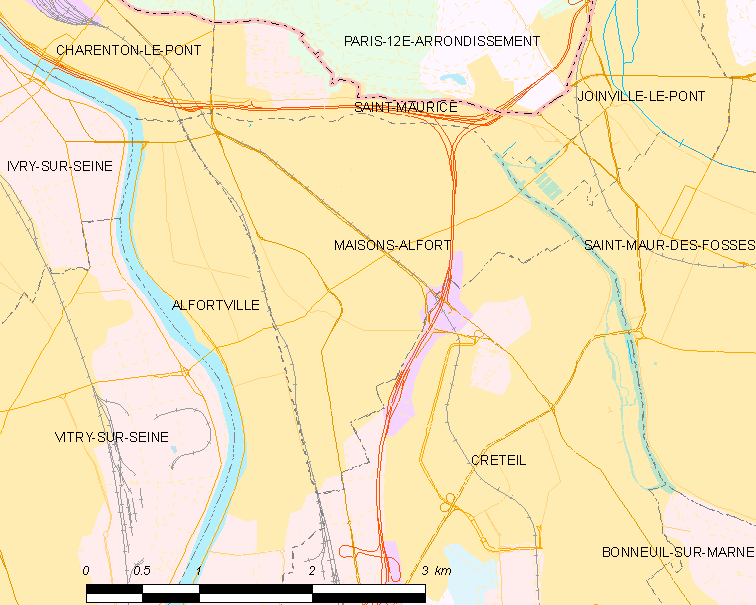 Map of French municipality Maisons-Alfort